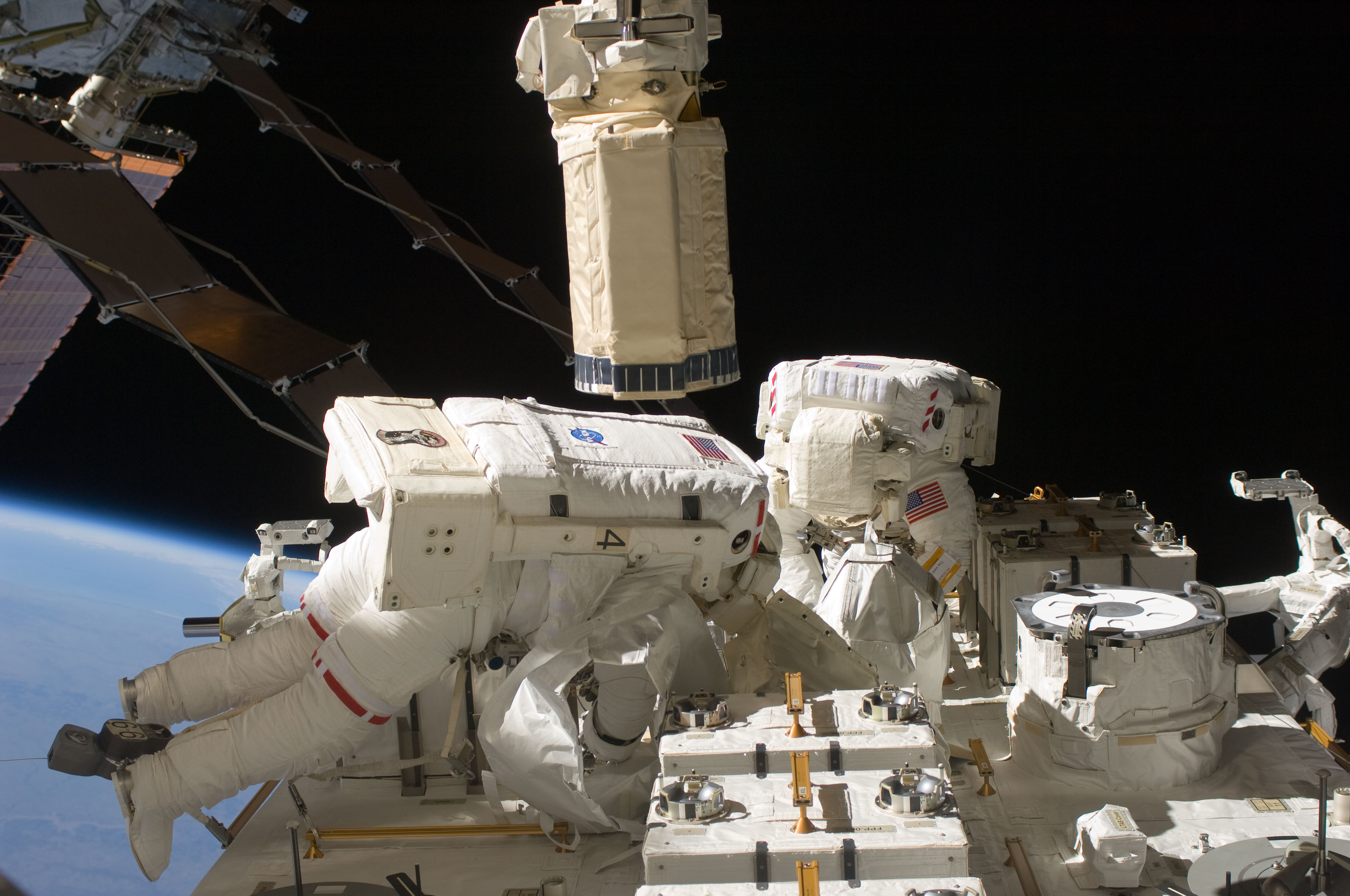 During this space walk, astronauts Tom Marshburn (left) and Christopher Cassidy secured multi-layer insulation around the Special Purpose Dexterous Manipulator known as Dextre, split out power channels for two space station Control Moment Gyroscopes, installed video cameras on the front and back of the new Japanese Exposed Facility and performed a number of get ahead tasks, including tying down some cables and installing handrails and a portable foot restraint to aid future spacewalkers. The spacewalk on July 27, 2009, was the fifth and final space walk for the STS-127 mission.